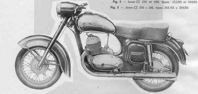 Picture with design elements of Jawa 250 - 353/03 and Jawa 350 -354/03 motorcycles